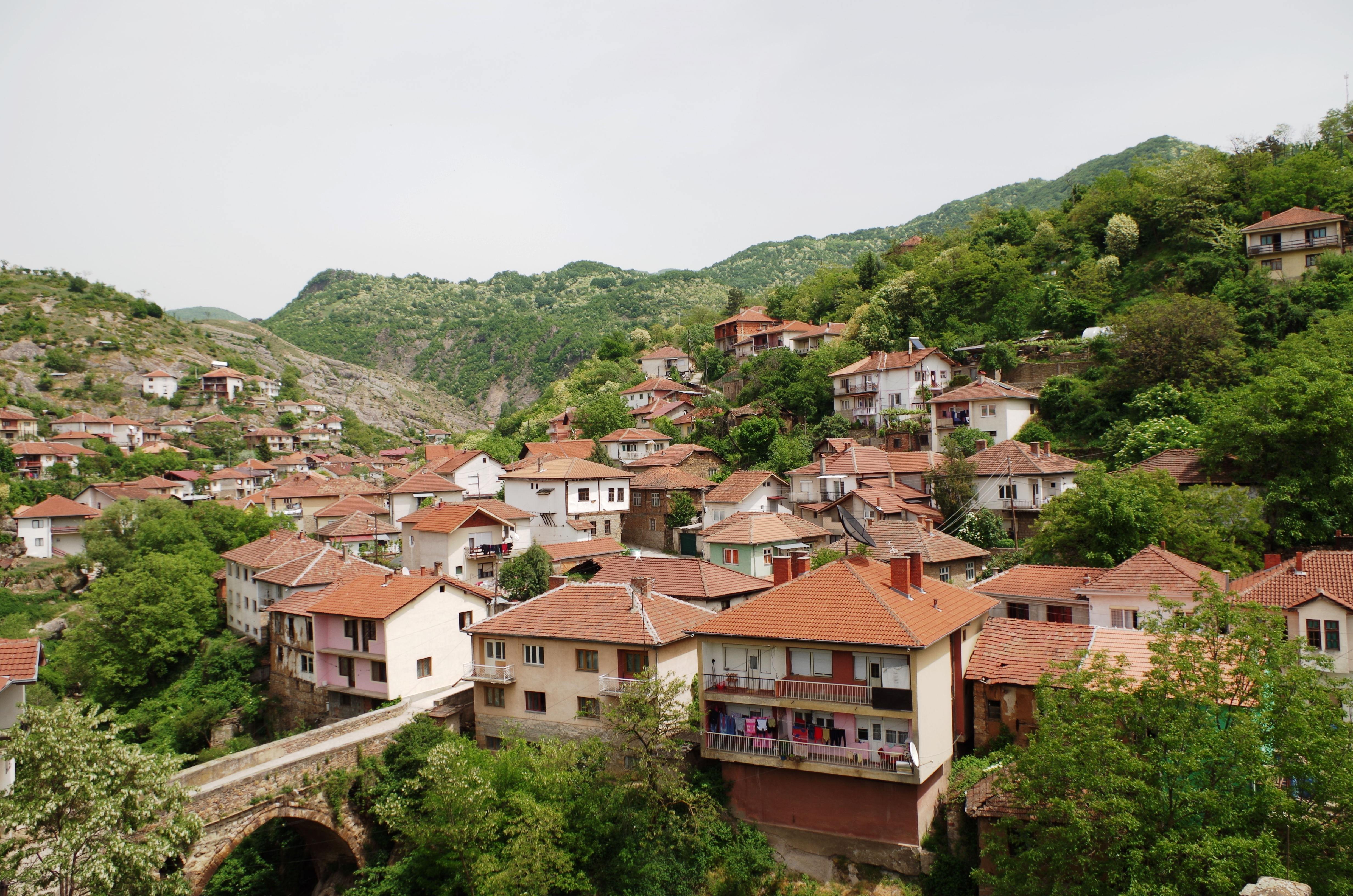 Панорама на Кратово